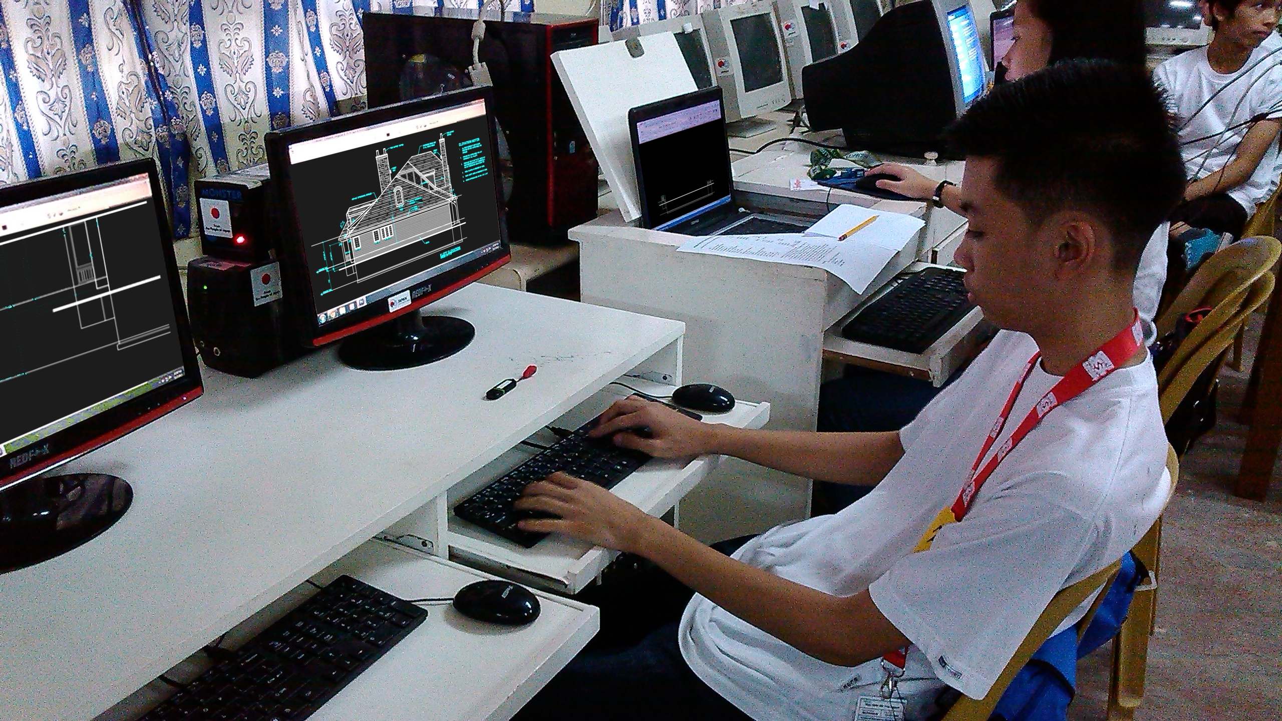 ICT Students Performing their AutoCAD activity